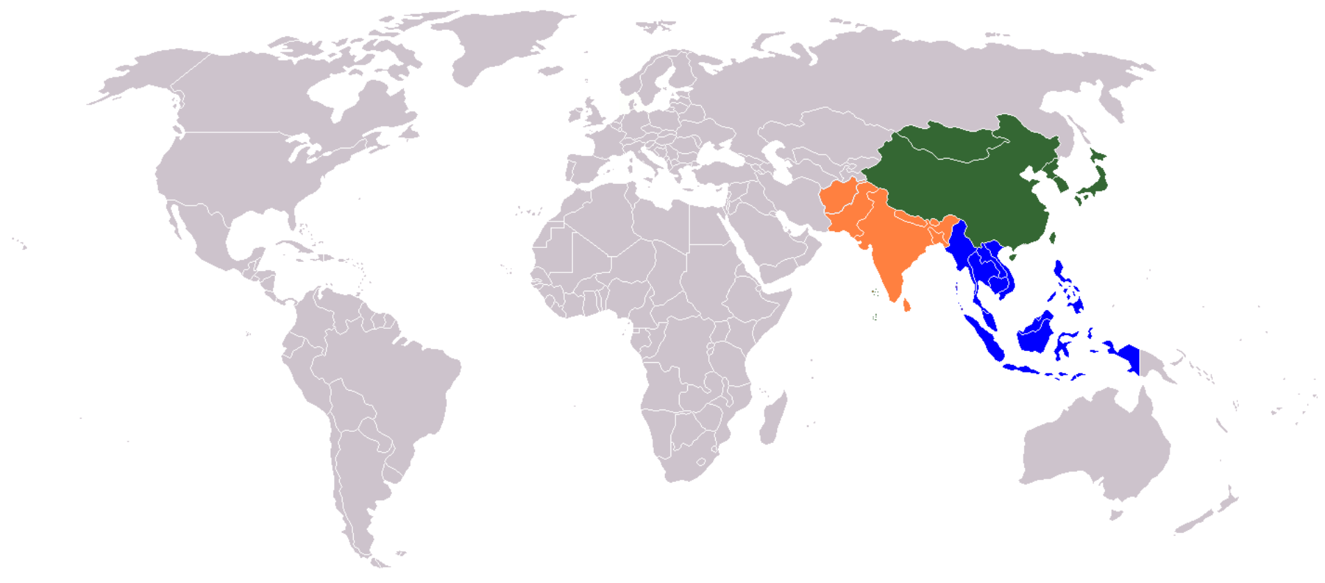 The Eastern world, defined as "South Asia and beyond", consists of three overlapping cultural blocks: East Asia (Green), South East Asia (Blue), and South Asia (Orange). Notes: Pakistan is considered to be a part of the Eastern world because culturally it is much more closer to India (as evident by the same languages, racial features, etc as Northern India) than the Middle-east. Going by religion alone is original work, as many sources say Pakistan is a part of the East. If going by religion alone, Bangladesh should be a part of the Middle-east where it evidently isn't. Indian civilisations, such as the Indus, have been classified as Indian. There are virtually no Arabs or Persians in Pakistan which is a further reason as to why it cannot be a part of the Middle-east.